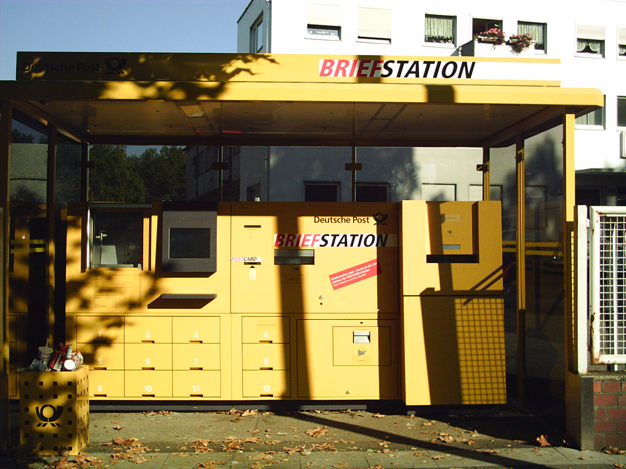 A Briefstation in Cologne, Germany check usage